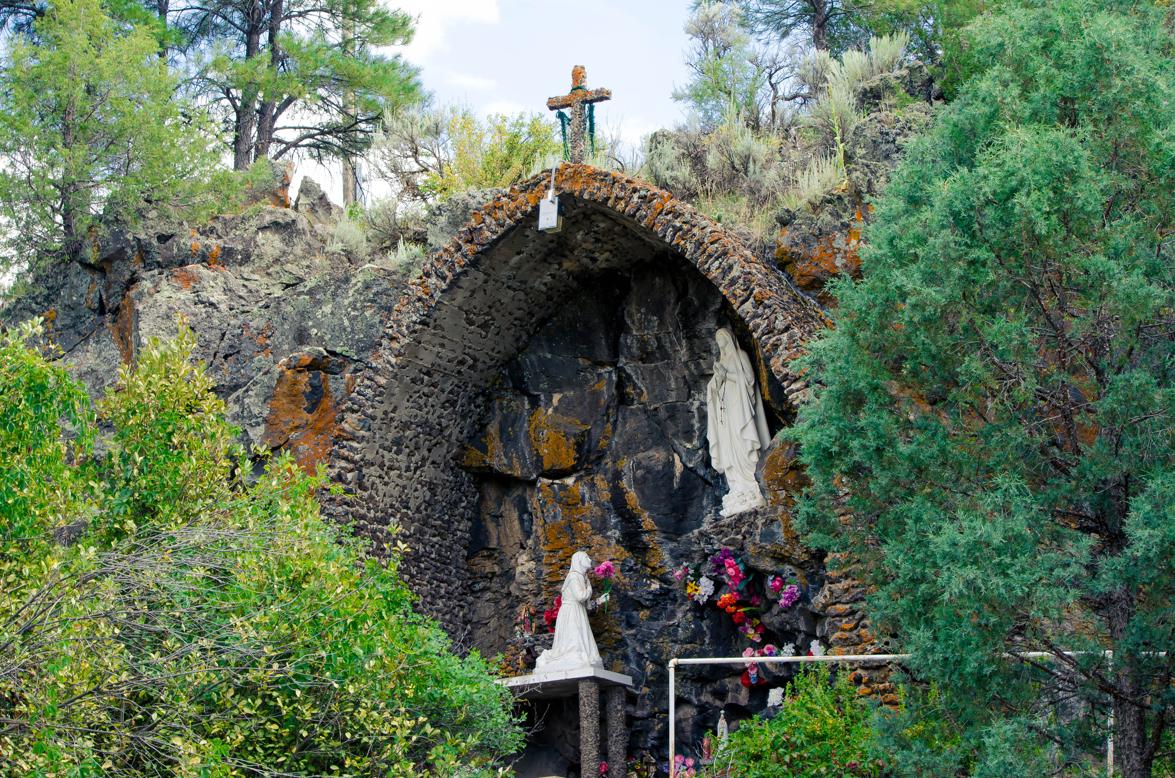 Grotto of the Miracle of Lourdes overviewing Los Ojos, NM.